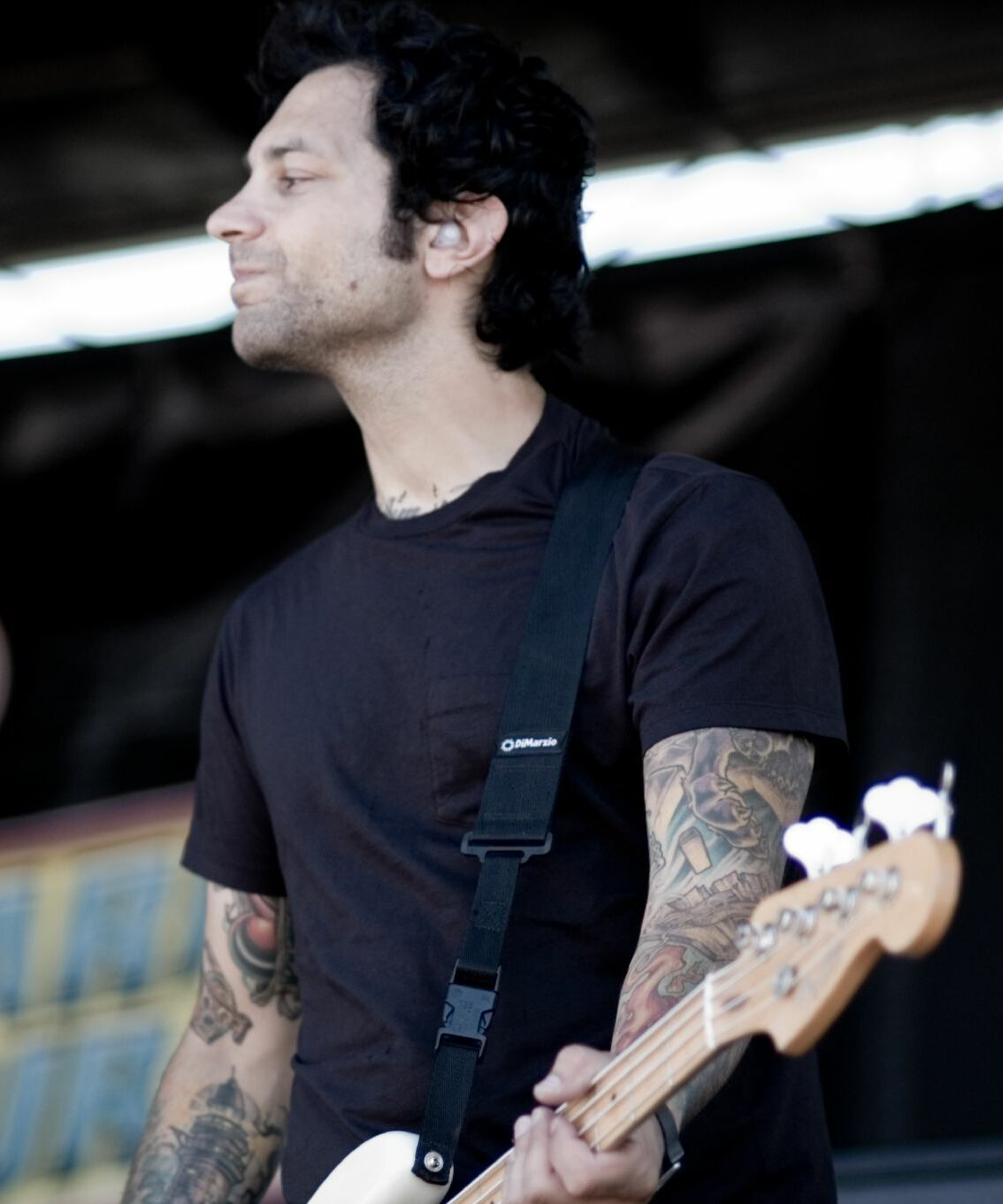 Joe Principe of Rise Against performing on July 13, 2006 at Warped Tour 2006 in Marysville, CA.